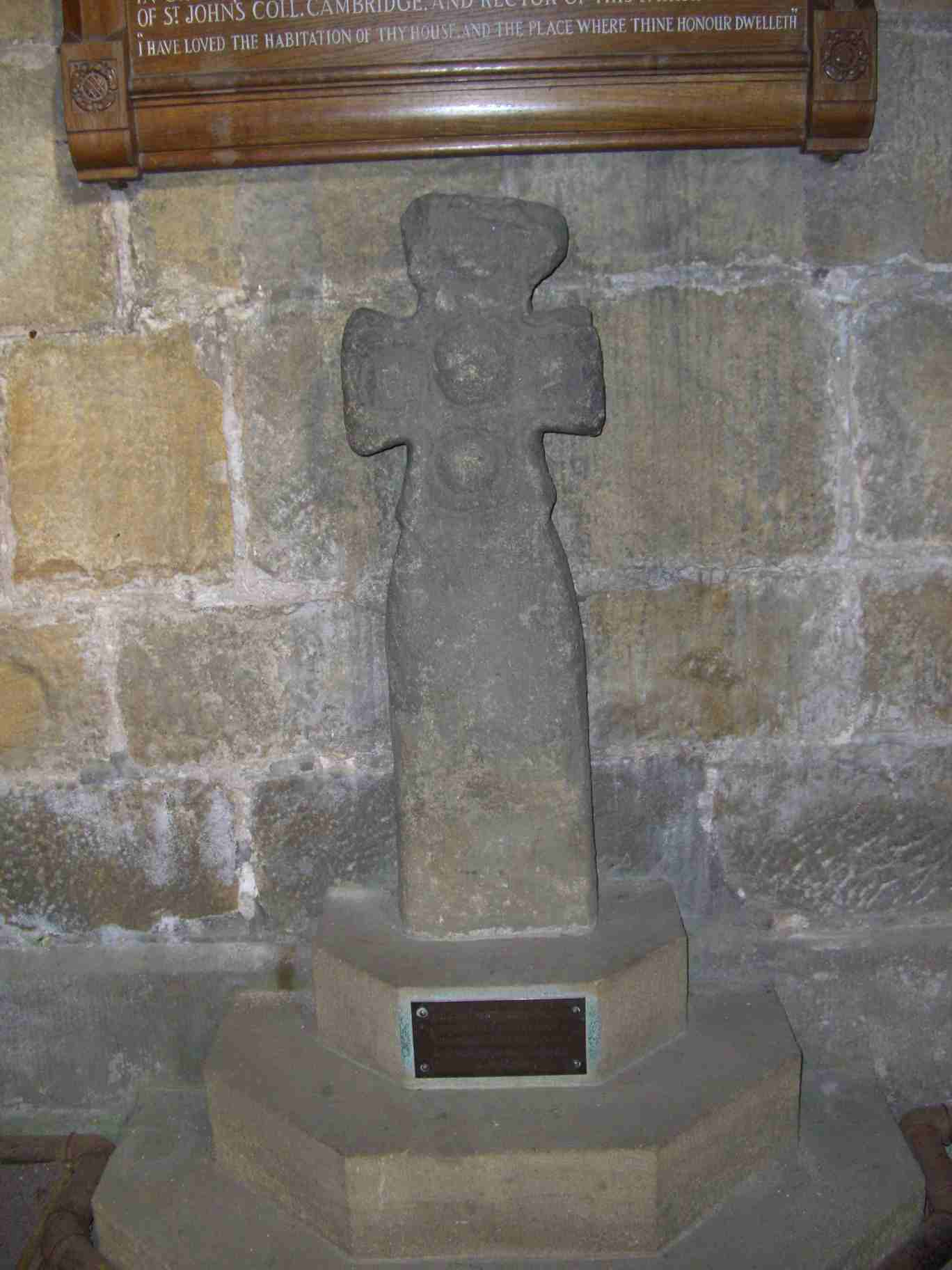 Personal picture taken by Mick Knapton